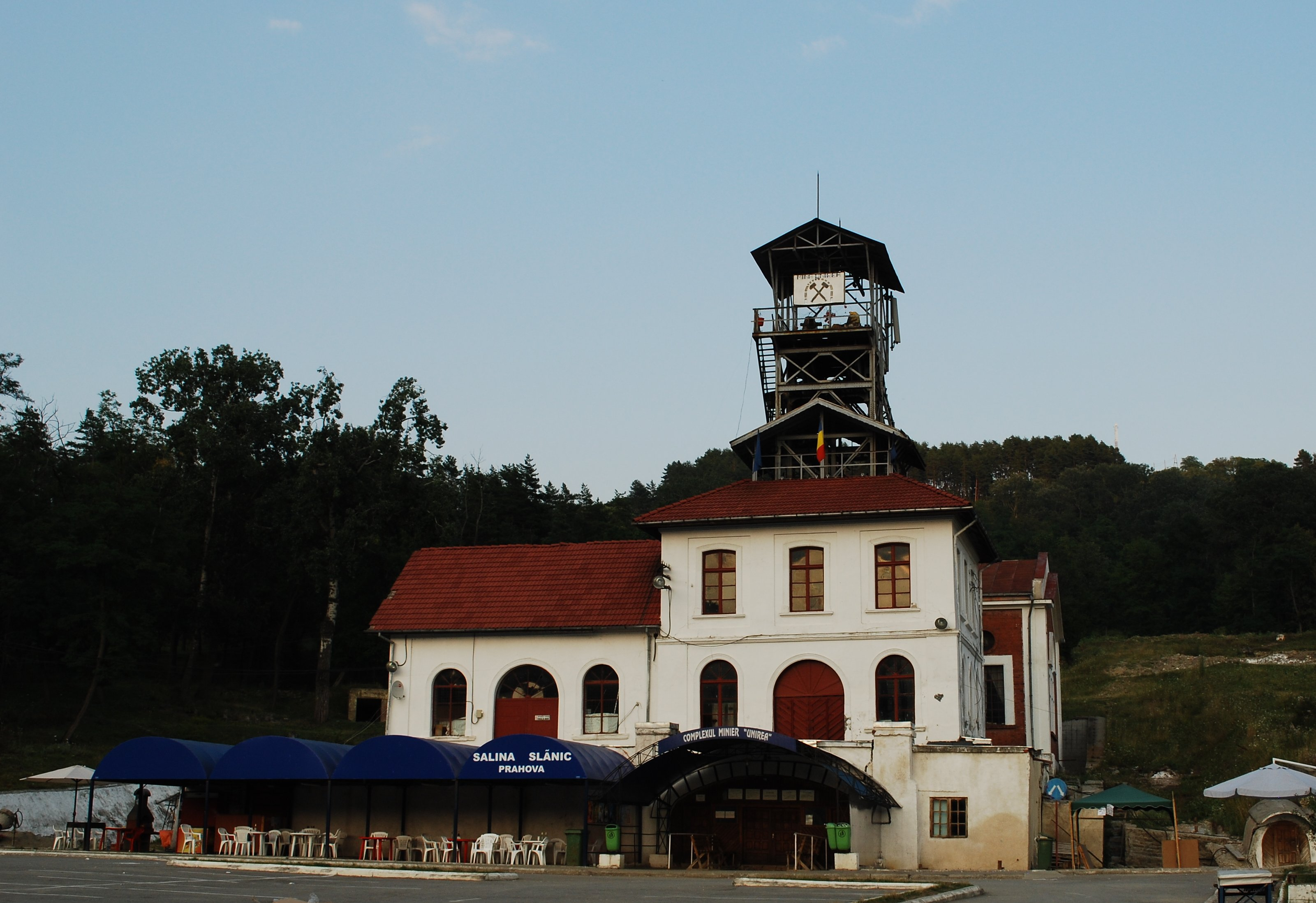 Entrance to the Unirea salt mine in Slănic, Romania